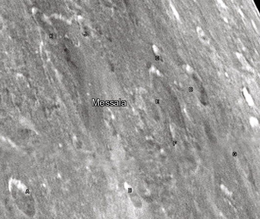 Messala lunar crater as seen from Earth with satellite craters labeled